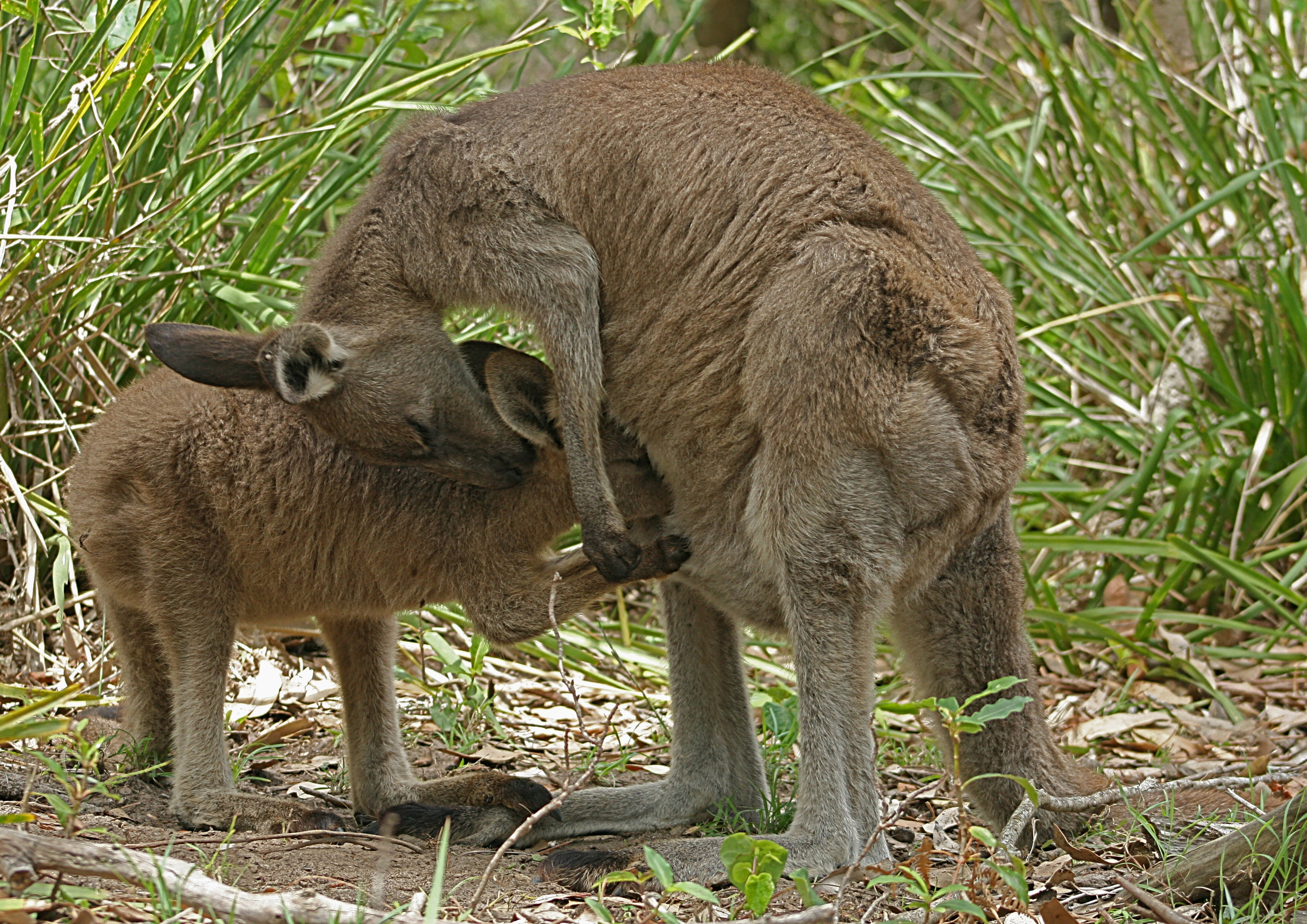 An Eastern Grey Kangaroo (Macropus giganteus) joey feeds (suckles from inside its mother's pouch) as the mother shows her affection. This family were located in Murramarang National Park on the southern coast of NSW (New South Wales), Australia.